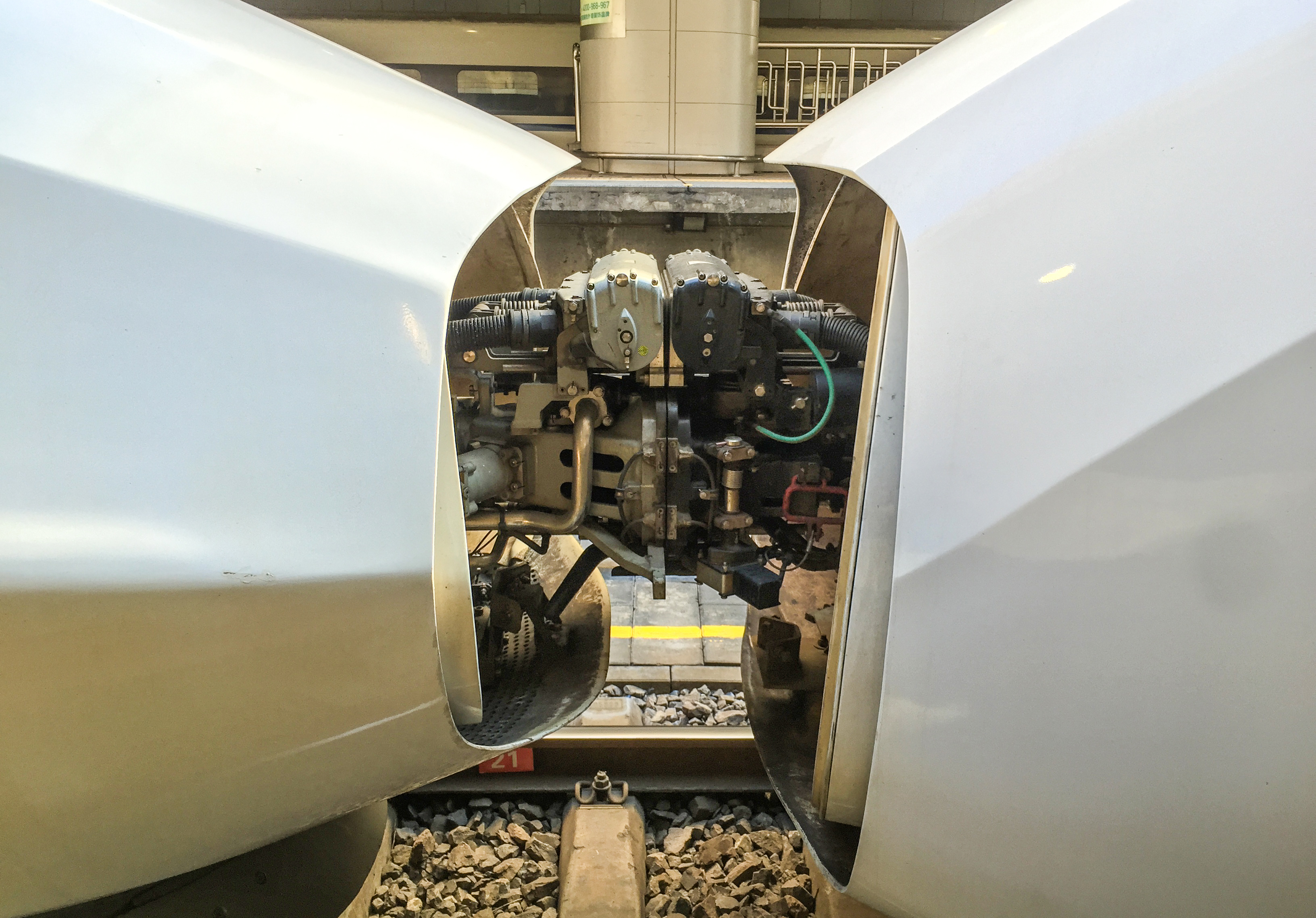 Close-up of the "Century Kiss". The chief purser reminded me not to fall off the platform when I was photographing the couplers, knowing that quite a lot fans went to G65/68 just for the new trainset.